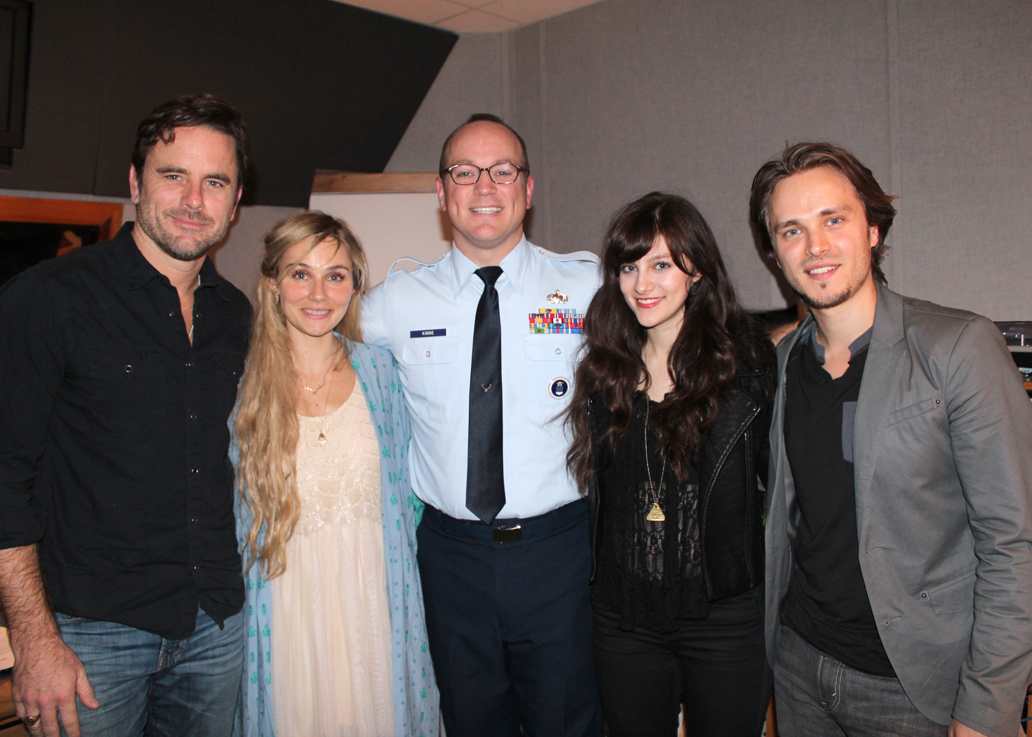 Master Sgt. Harry Kibbe is joined by TV’s Nashville cast members, from left, Charles “Chip” Esten, Clare Bowen, Aubrey Peeples and Jonathan Jackson for the 2014 “Red, White and Air Force Blue Christmas” radio special. It will air on be country stations in the United States and on the Armed Forces Network during the upcoming holiday season. The show is produced by the Air Force Recruiting Service. (U.S. Air Force photo/Dale Eckroth)